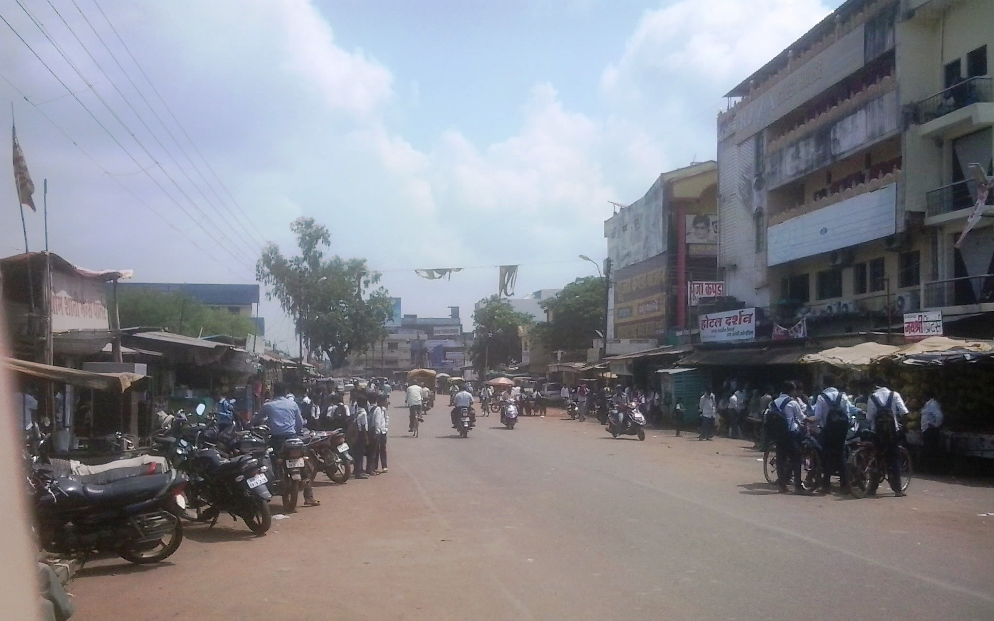 Main road in Wadsa, Dist Gadchiroli